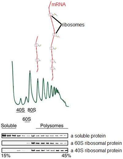 Polysome Profiling; sucrose gradient and immunoblot